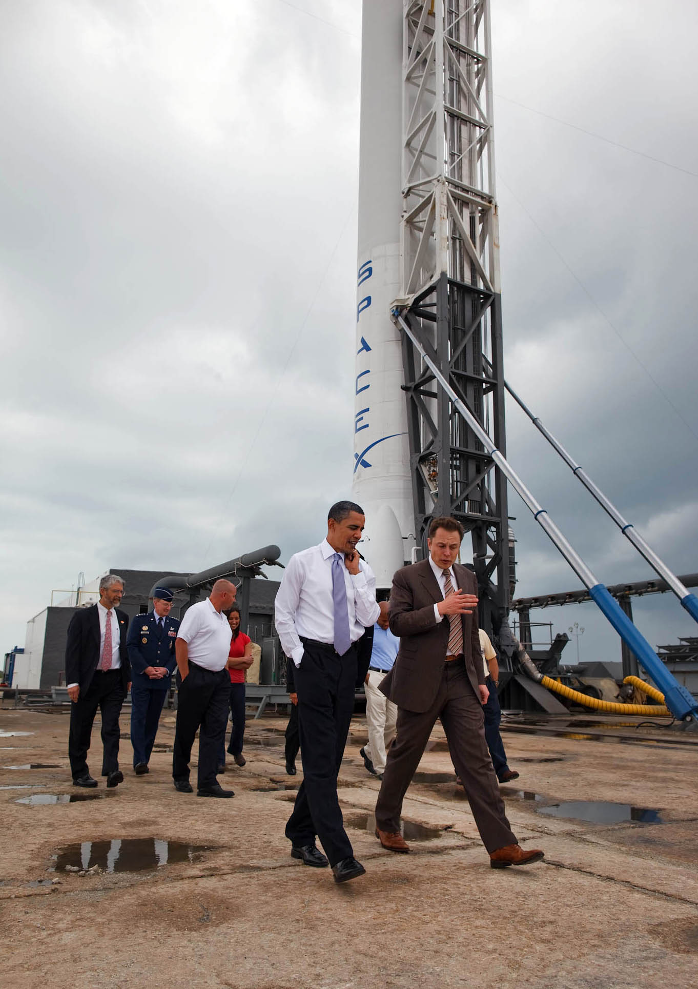 President Barack Obama tours SpaceX launch pad with CEO Elon Musk, at the Kennedy Space Center in Cape Canaveral, Florida.)